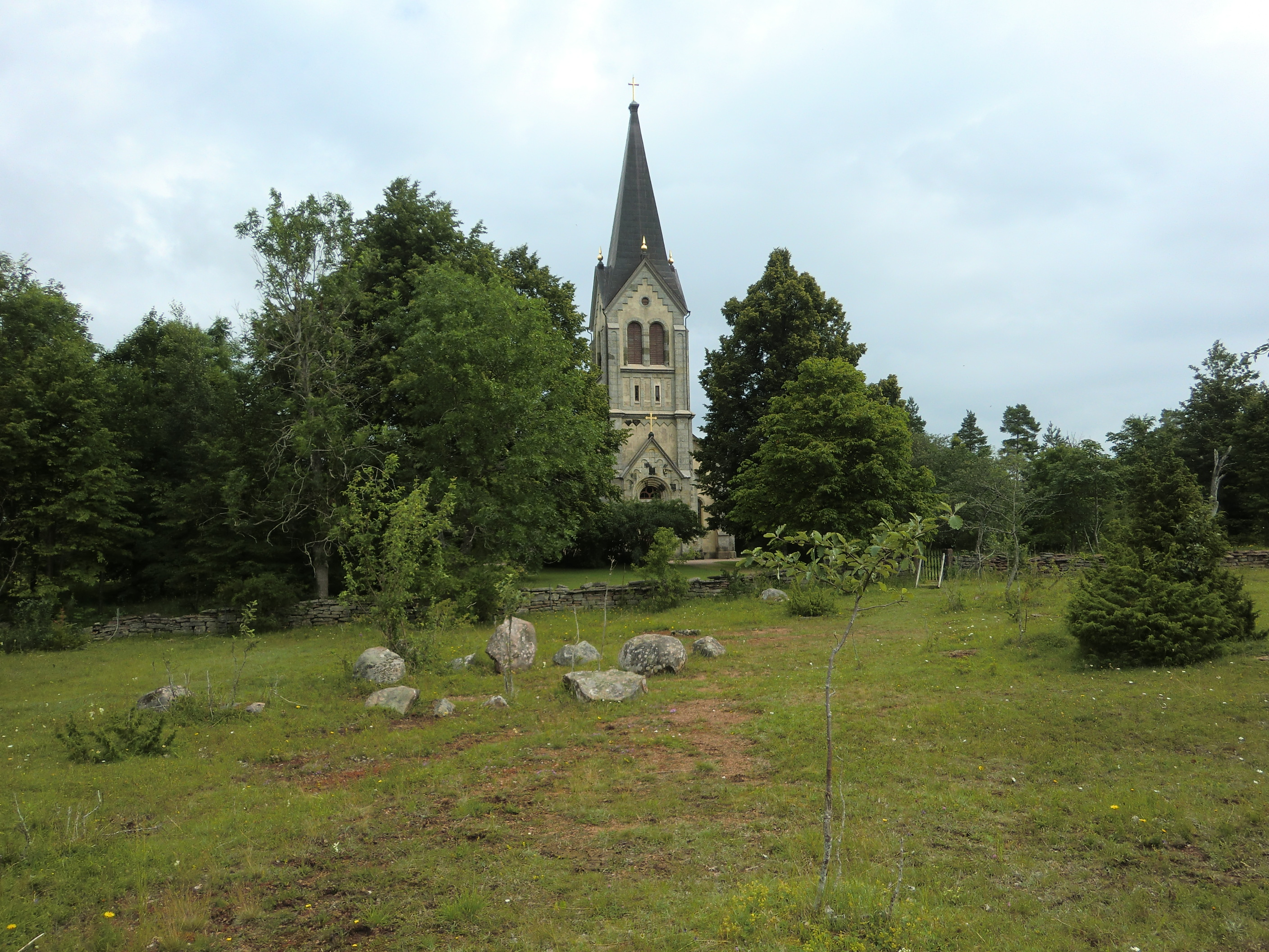 Österplana church seen from south. Photo taken from the "Österplana hed och vall" (moor and meadow) nature reserve at Kinnekulle, Sweden.